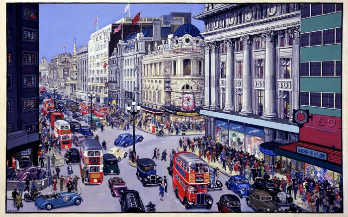 Description: "A West-End London Street Scene" by Grace Golden. Clearly depicting Regent Street, Golden imagines future post-war prosperity. In reality shoppers had to endure rationing in Britain into the 1950s. Date: c.1945 Our Catalogue Reference: INF 3/1738 This image is from the collections of The National Archives. Feel free to share it within the spirit of the Commons. For high quality reproductions of any item from our collection please contact our image library.